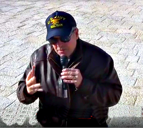 Don Brown speaking at the Israeli 911 Memorial, Jerusalem, Israel on March 21, 2016